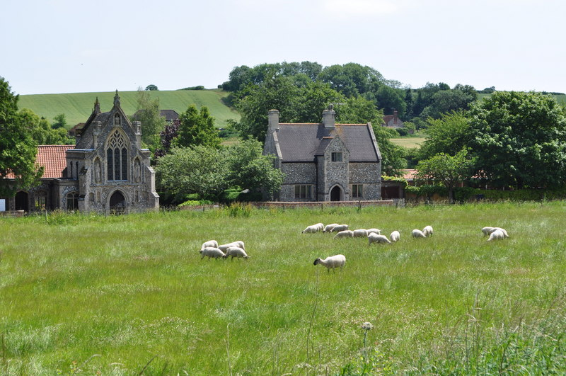 The Slipper Chapel (left) and presbytery (right) Houghton St Giles, Norfolk, England, seen from the northwest